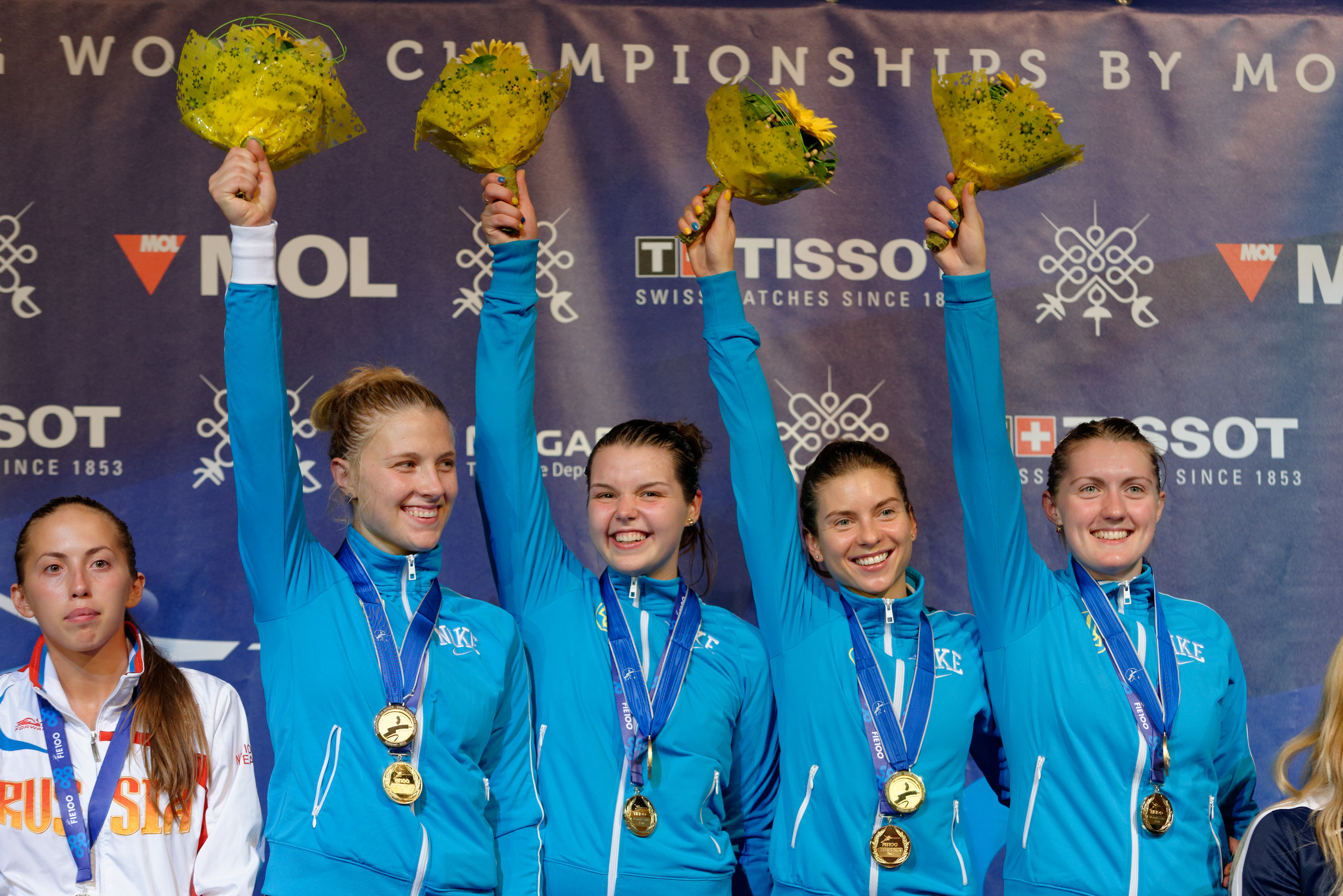 Ukraine' women sabre team (from left to right, Olha Kharlan, Alina Komashchuk, Halyna Pundyk, Olena Voronina) stand on the podium of the 2013 World Fencing Championships 2013 at Syma Hall in Budapest, 12 August 2013.